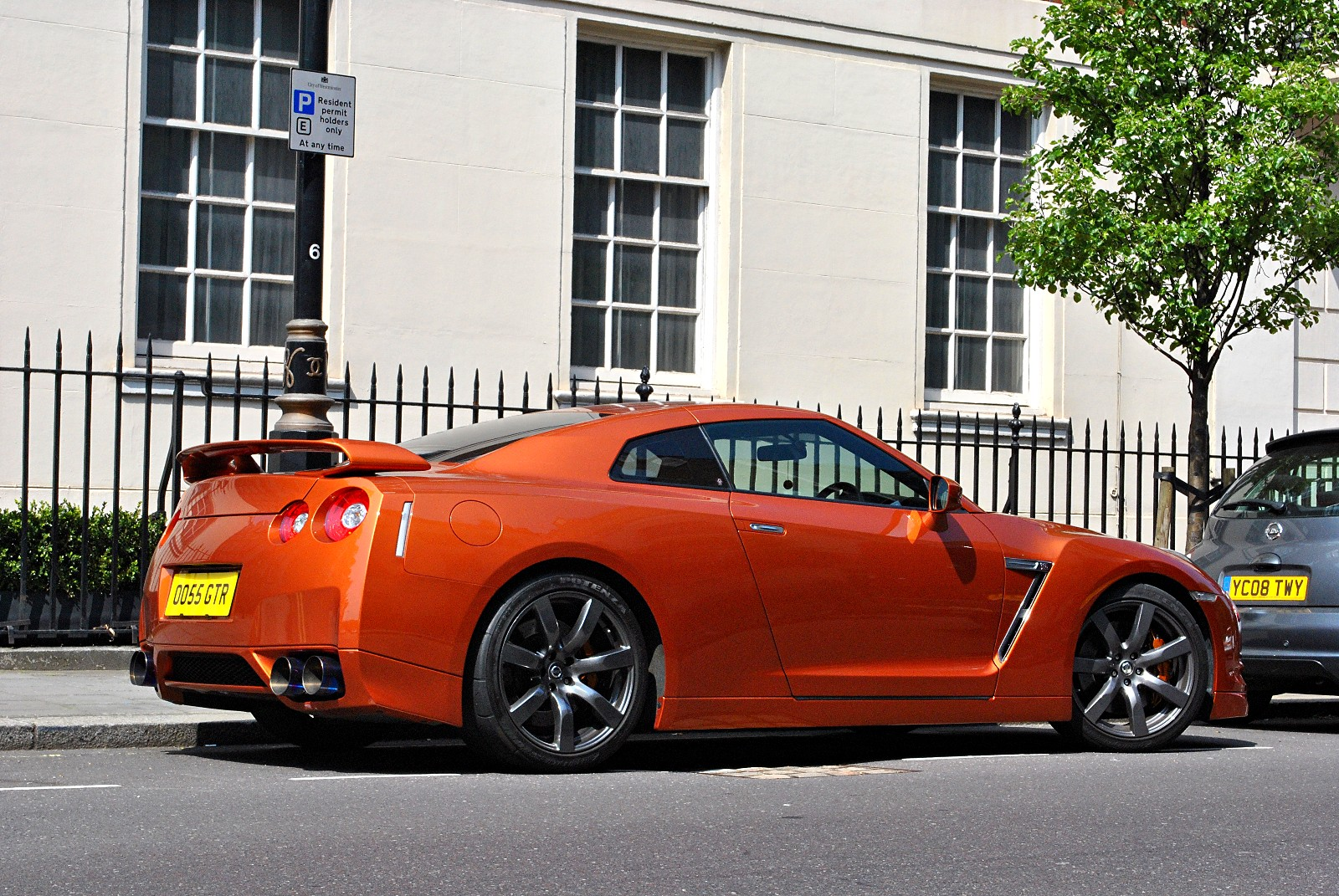 Nissan GT-R in London